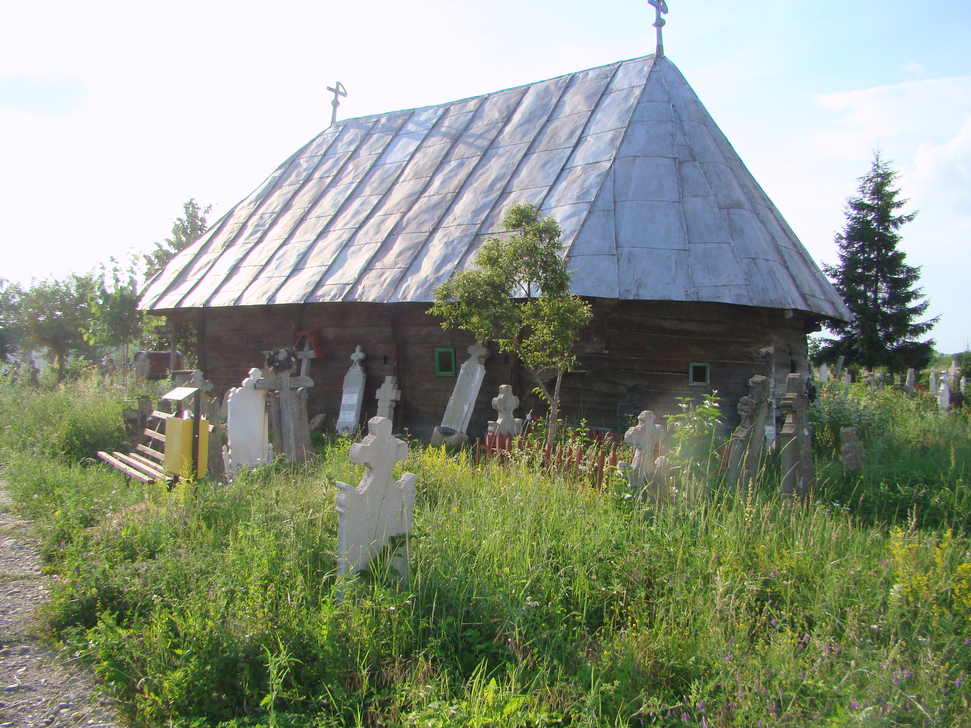 Wooden church in Bobu-Gorgania, Gorj county, Romania